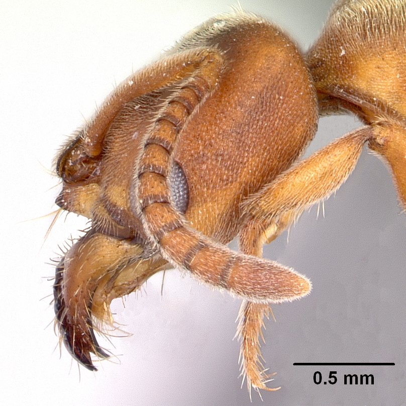 Profile view of ant Pachycondyla darwinii specimen casent0476550.